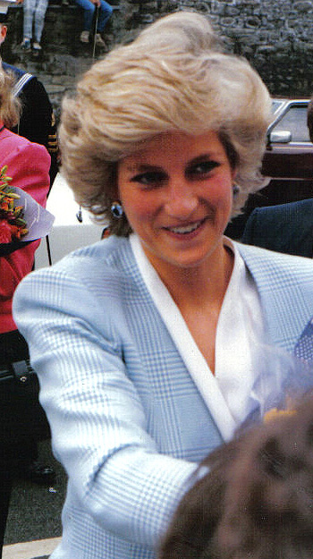 Princess Diana on a royal visit for the official opening of the community centre on Whitehall Road, Bristol in May 1987.